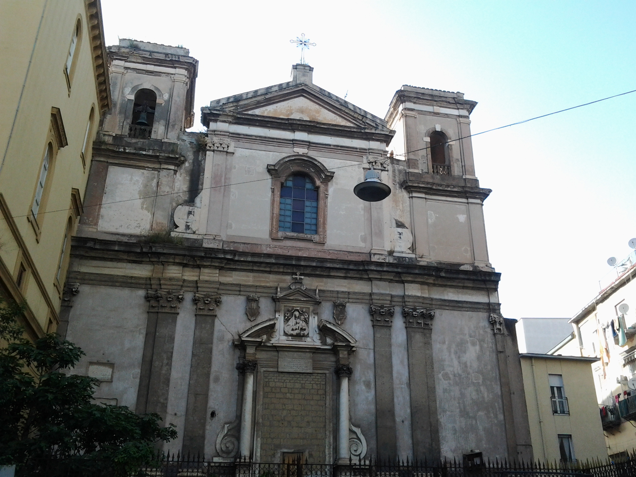 Church of Gesù e Maria (Naples)